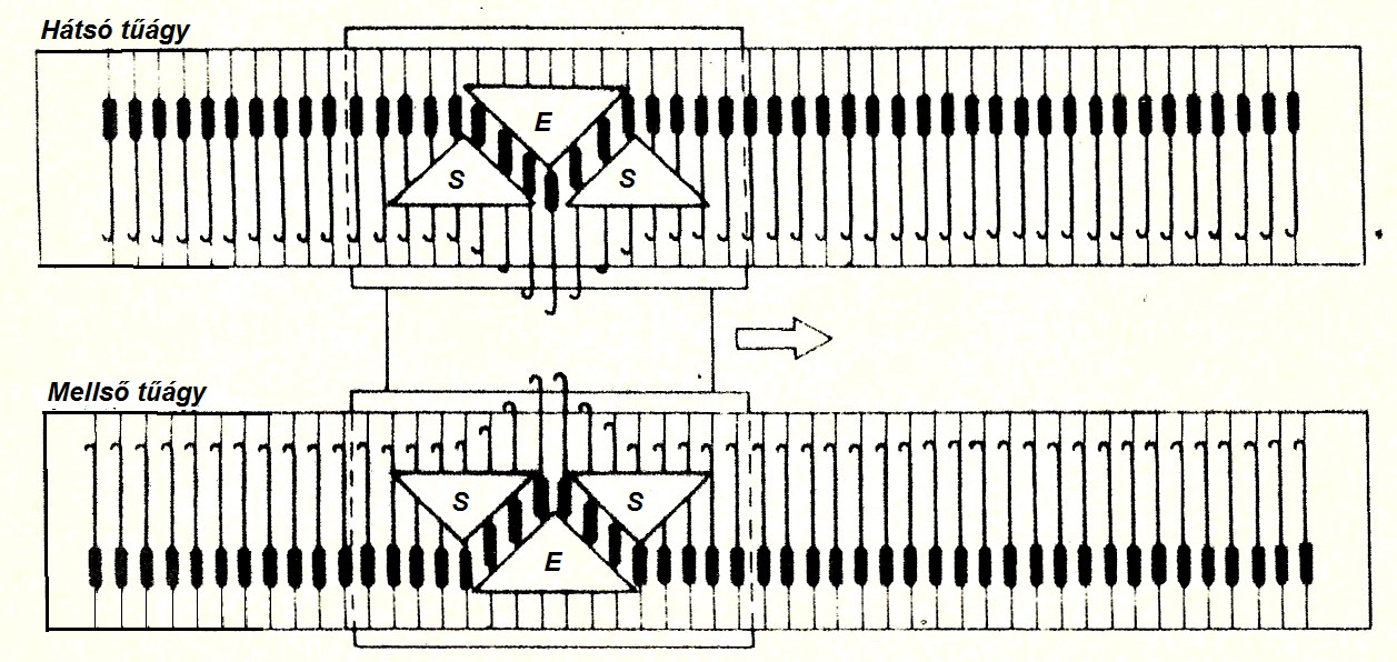 Principle of the work of cam system on double-bed weft knitting machine. Mellső tűágy = Front needle bed, Hátsó tűágy = Rear needle bed. S = stitch cam, E = raising cam.